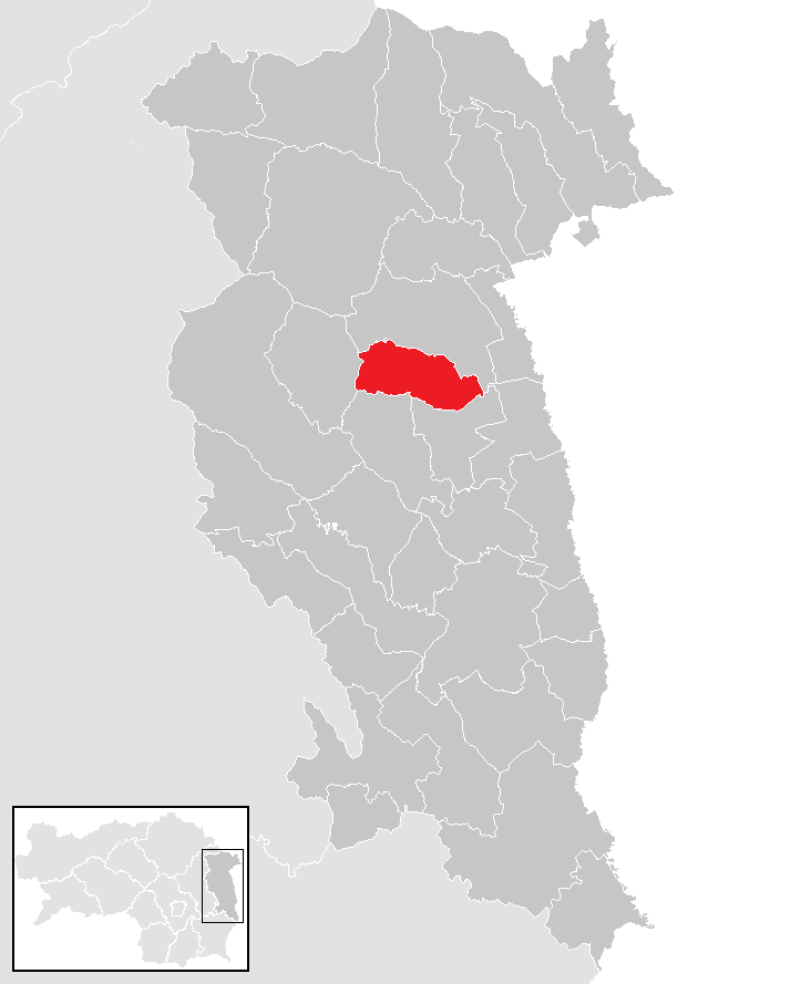 district Hartberg-Fürstenfeld